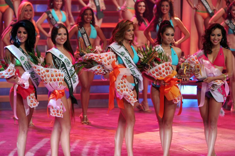 Miss Earth 2007 Special Awards! Ms Friendship (Lebanon), Ms Talent (Lithuania), Best in Swimsuit & Long Gown (Venezuela), Best in National Costume (Thailand), Ms Photogenic (Philippines), Beauty for a Cause (South Africa)